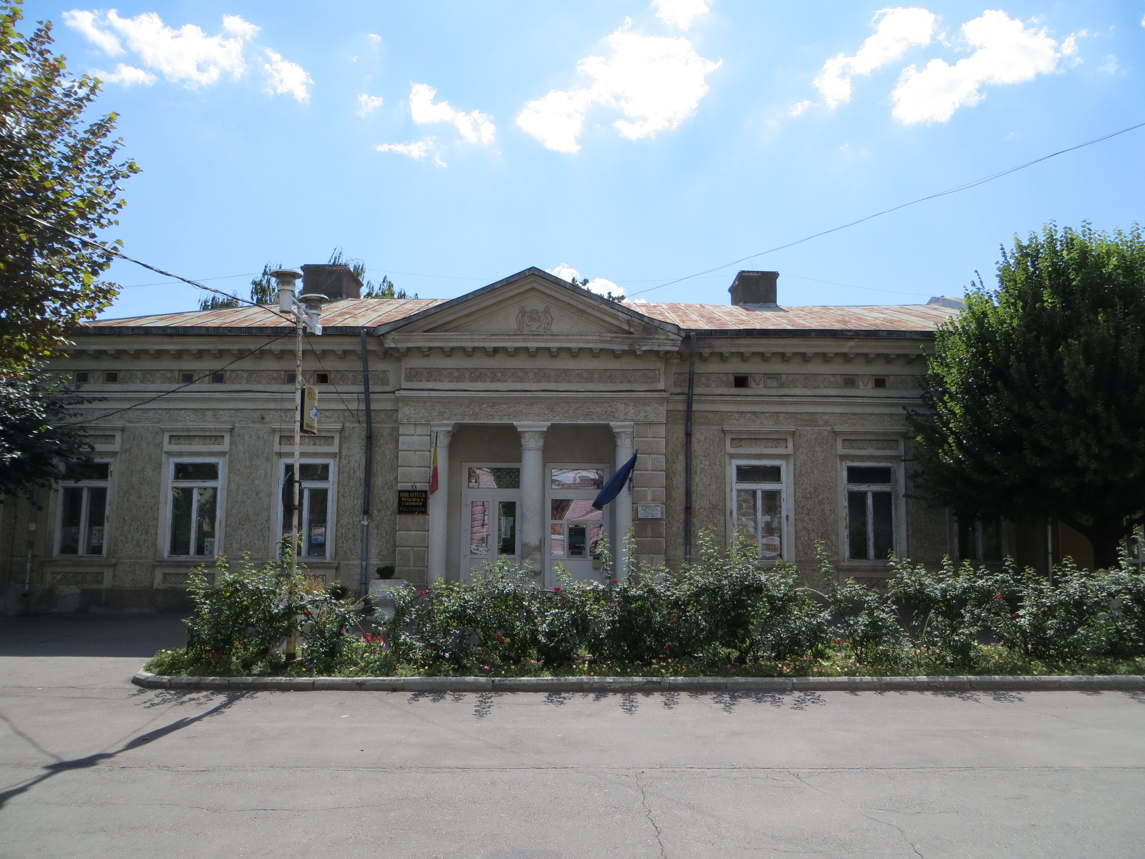 Eugen Lovinescu City Library, Fălticeni, Suceava County, Romania.